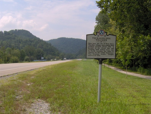 Historical marker recalling the site of Cherokee villages in Tuckaleechee Cove (modern-day Townsend, Tennessee). A short walking trail has signs detailing the areas 5000-year human presence and archaeological finds.